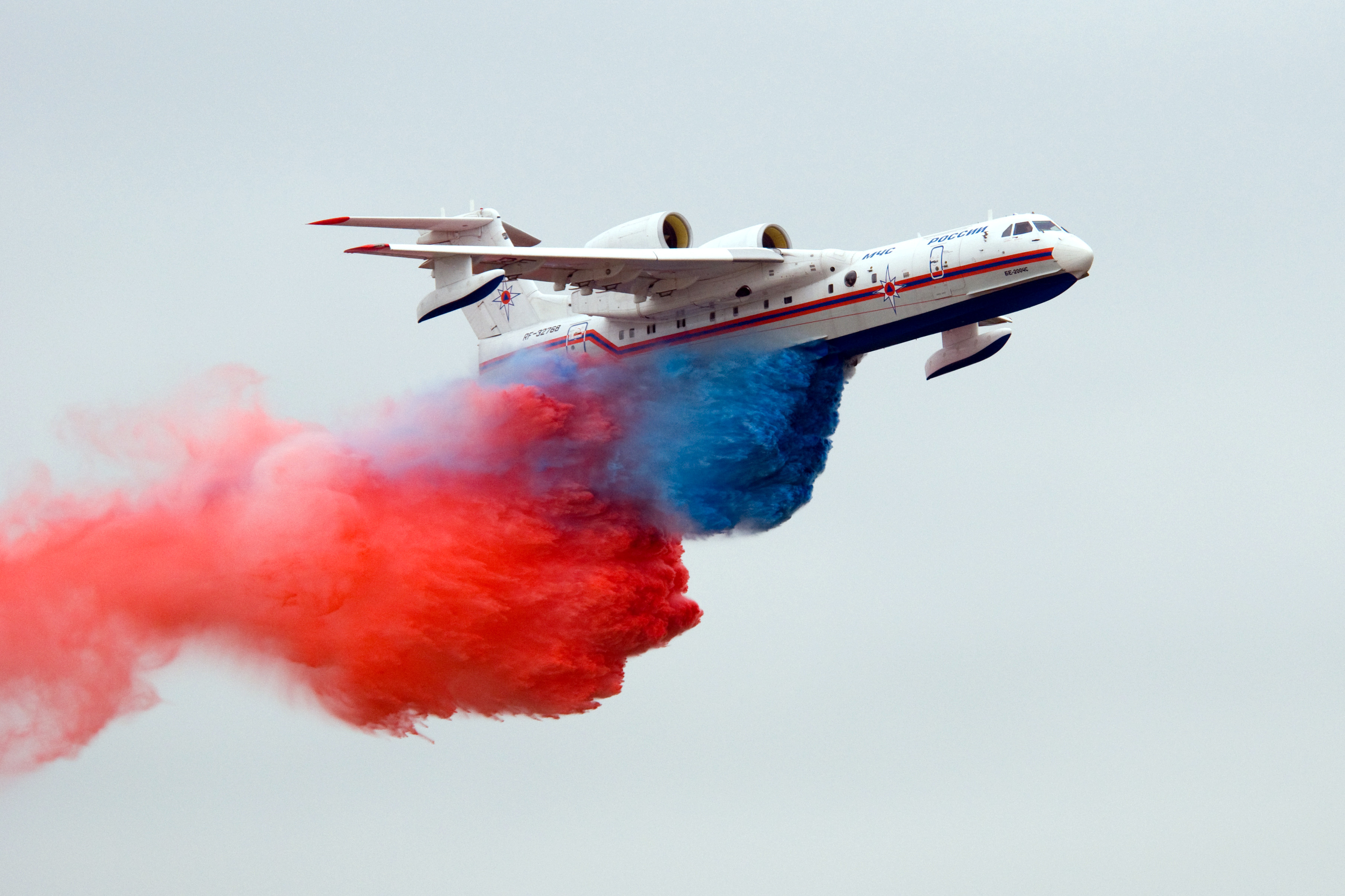 Colored water release from Beriev BE-200 aircraft at MAKS-2009 aeroshow